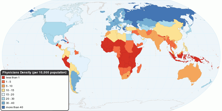 For use in an article on Health equity. A map of the world, showing the number of physicians/10k individuals in each country. Data is sourced from a World Health Statistics 2010, a WHO report. The map was generated by ChartsBin